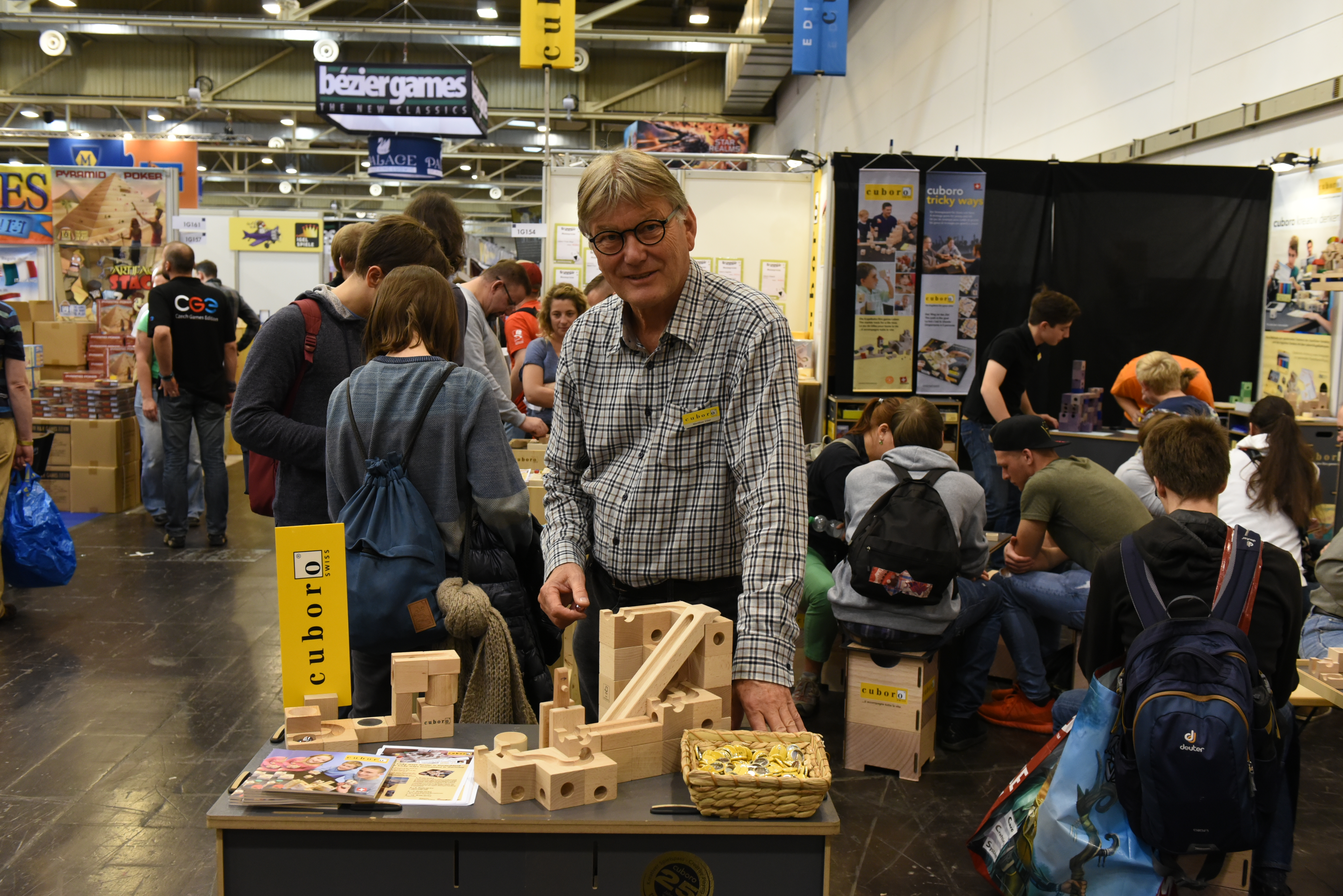 The game inventor Matthias Etter at the board game fair Spiel '17 in Essen, Germany.